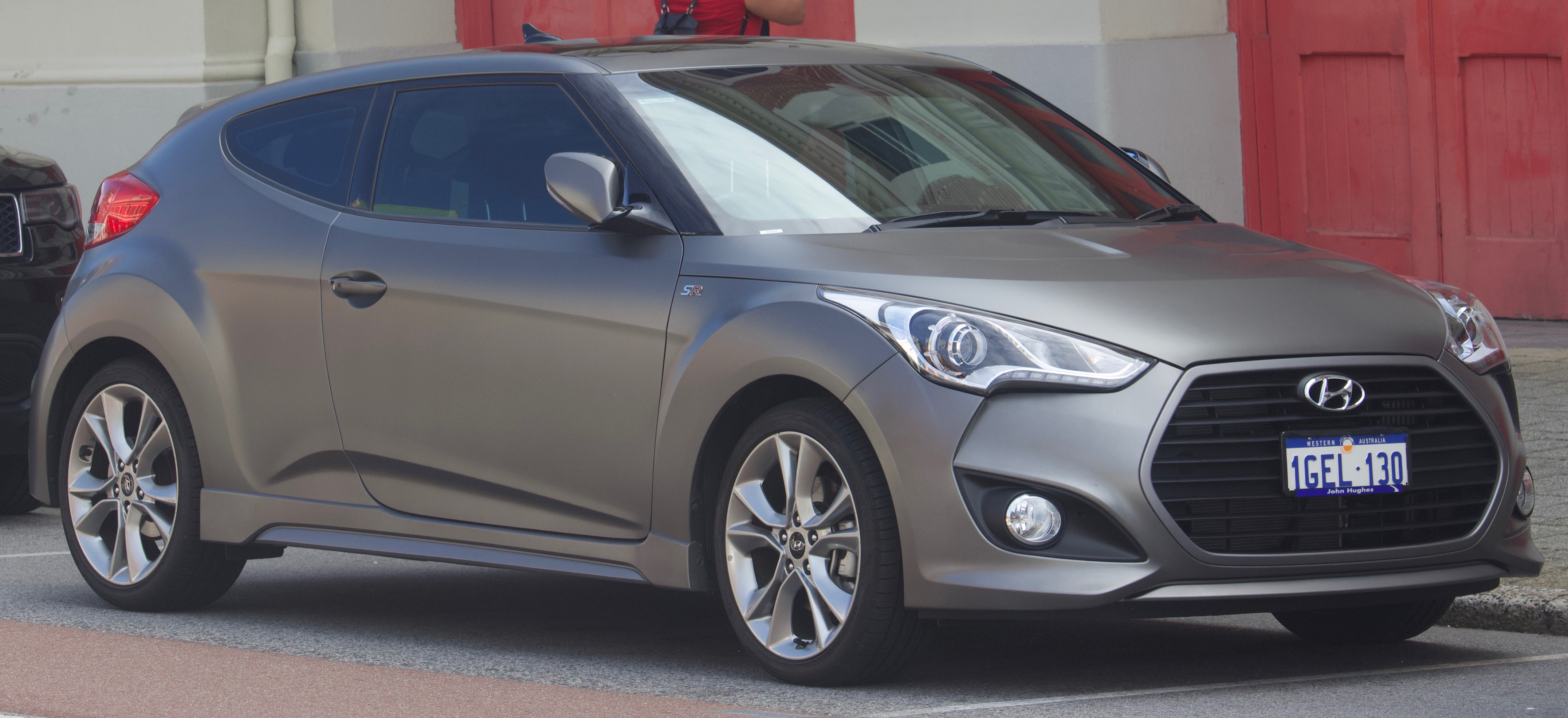 2017 Hyundai Veloster (FS5 Series II) SR Turbo hatchback. Photographed in Fremantle, Western Australia, Australia.